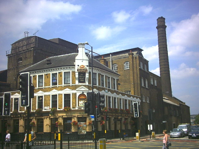 Young's brewery, Wandsworth, by day. Junction of A3 and A217.